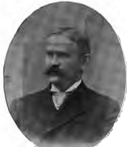 Portrait of New York assemblyman Daniel E. Finn